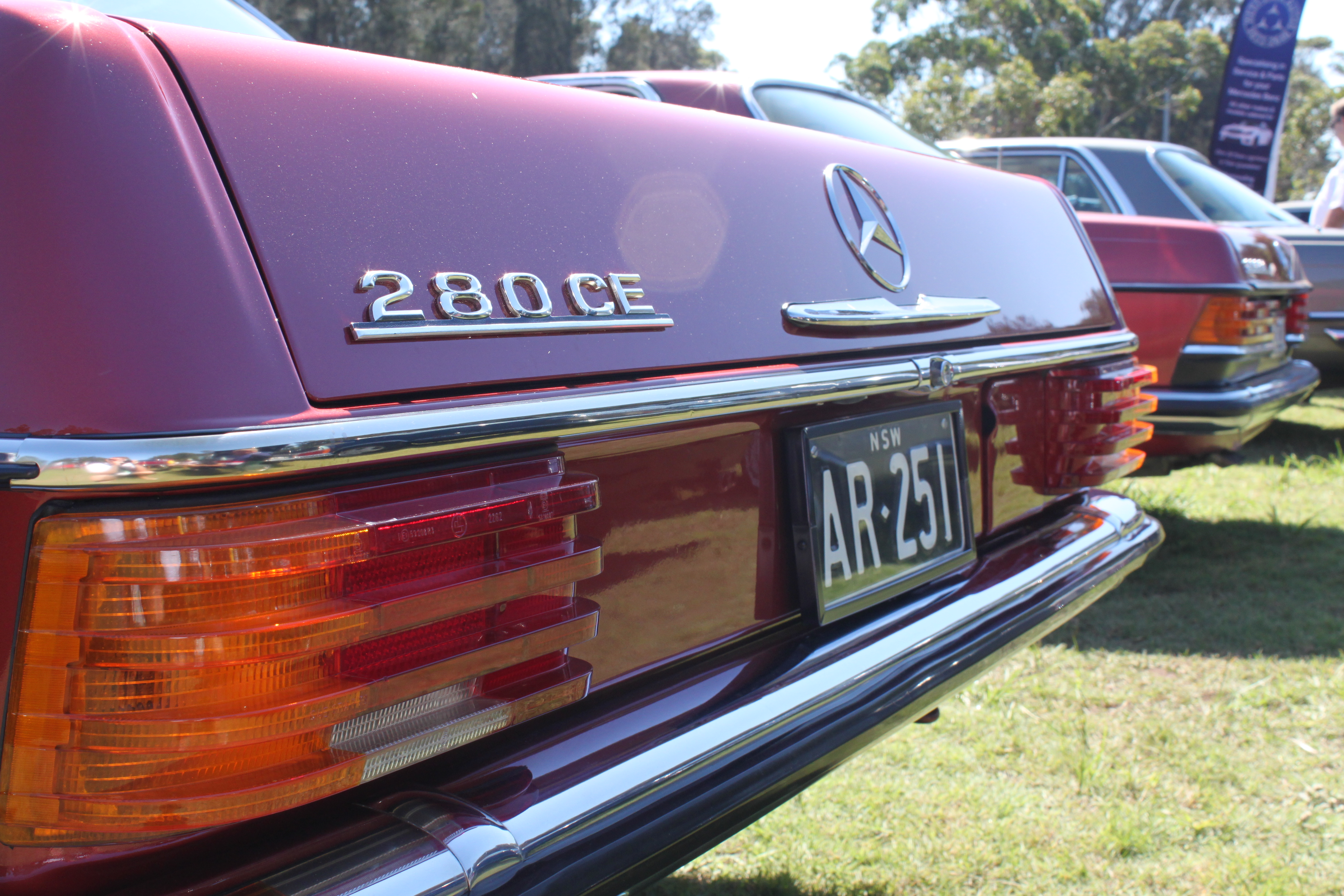 German Auto Fest 2015, Gough Whitlam Park, Earlwood NSW